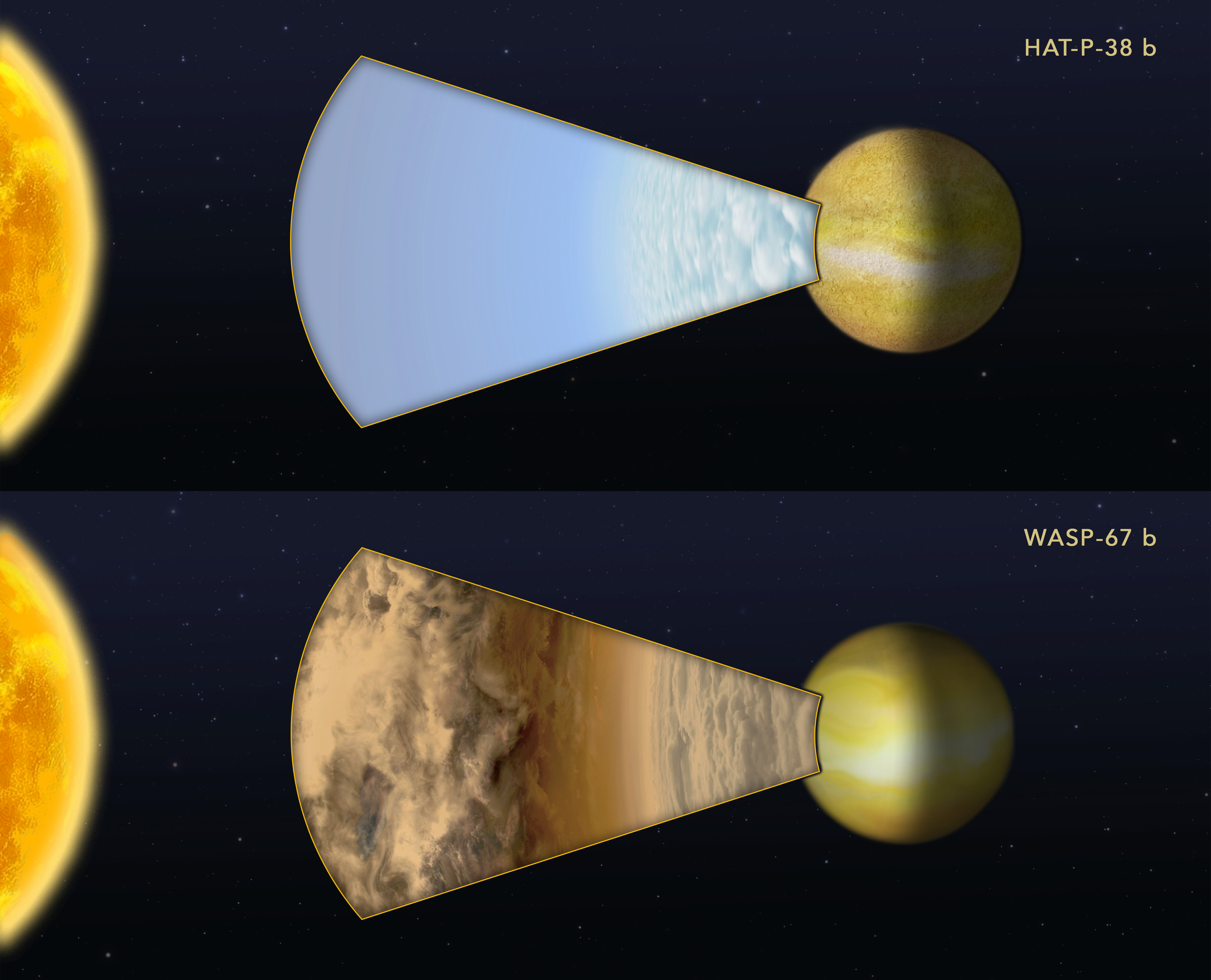 This illustration compares the atmospheres of two "hot Jupiter"-class exoplanets orbiting very closely to different sunlike stars. The planets are too far away for the NASA/ESA Hubble Space Telescope to resolve any details. Instead, astronomers measured how the light from the parent stars is filtered through each planet's atmosphere. Hubble was used to measure the spectral fingerprint caused by the presence of water vapor in the atmosphere. The planet HAT-P-38 b did have a water signature, indicating the upper atmosphere is free of clouds or hazes. By contrast, a very similar hot Jupiter, WASP-67 b, showed no water vapor, suggesting that most of the planet's atmosphere is masked by high-altitude clouds. These results are not peer-reviewed and were presented at the 230th meeting of the AAS.